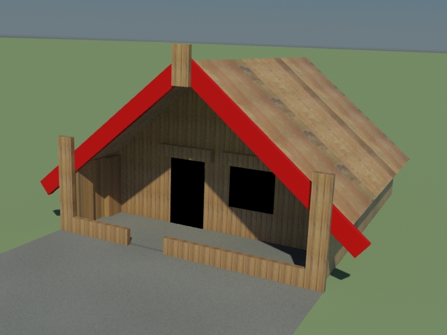 Maihi, a Māori meeting house feature, representing an iwi (tribe's) ancestor's arms. Created from scratch using 3Ds Max software, as if I was altering images of a real wharenui, it might be culturally offensive to that tribe (and ancestor).